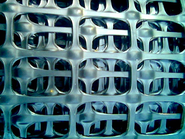 geogrid AG